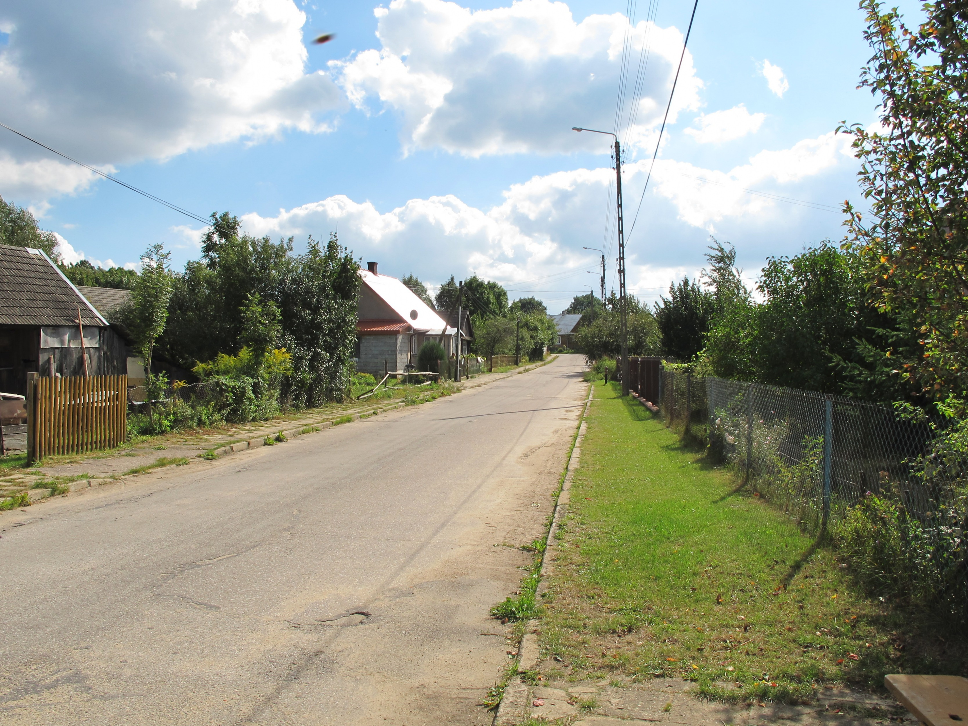 Kościelna street in Narew village, gmina Narew, podlaskie, Poland